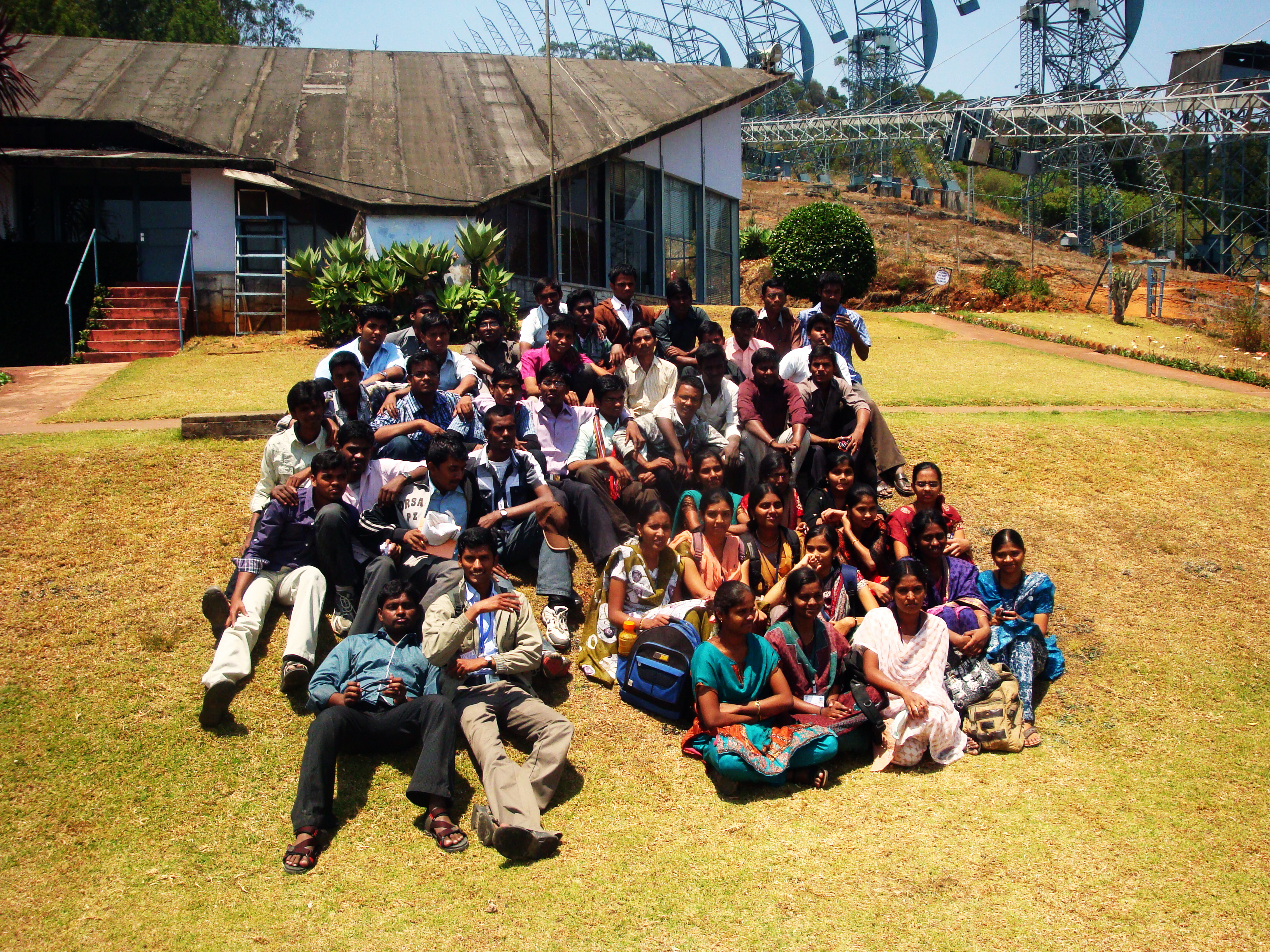 EEE students of university collge of engineering kanchipuram went to ooty for their indusrial visit